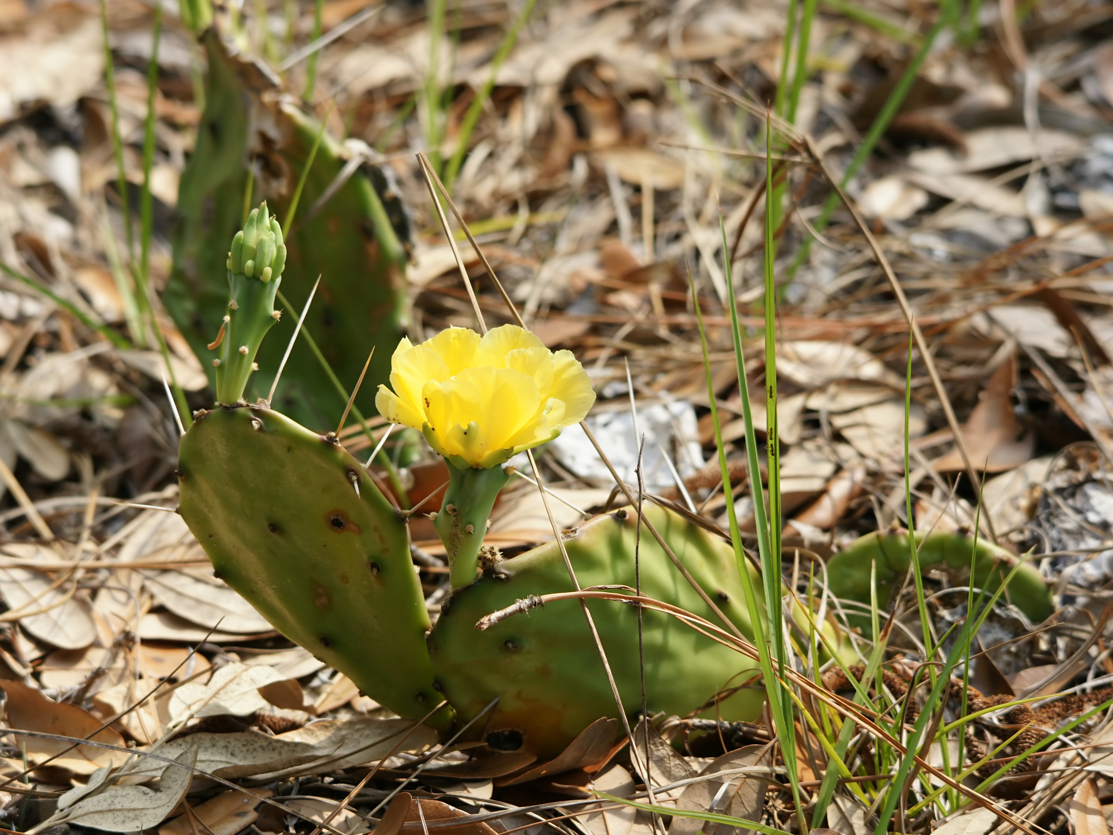 Eastern Prickly Pear at Lake Louisa State Park in Lake County, Florida, U.S.A.